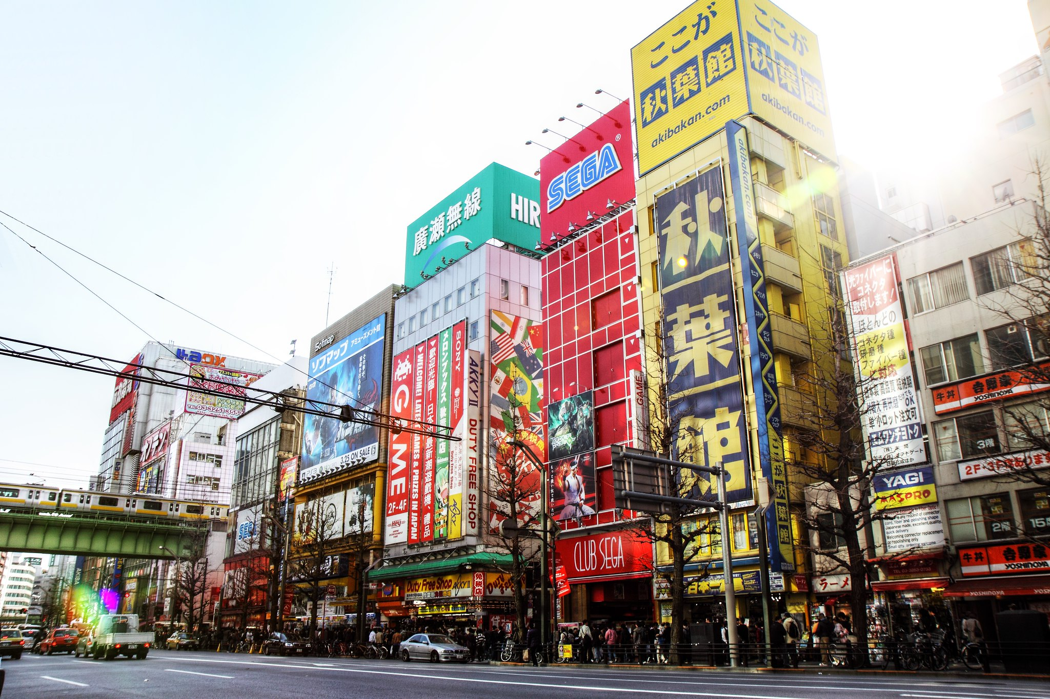 Photo of the outside arcades in Akihabara, Japan